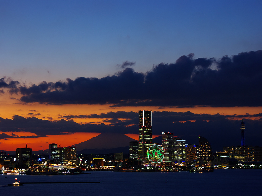 The Night Skyline of Yokohama, Japan.